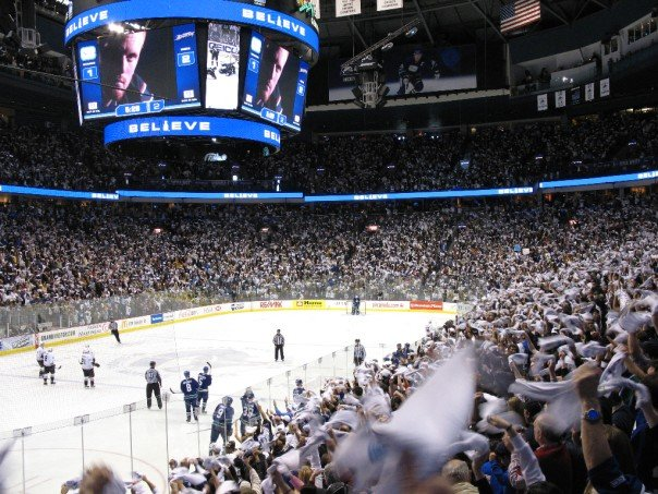 Towel Power - Vancouver Canucks- 2007 Conference Semi-finals - Game 3